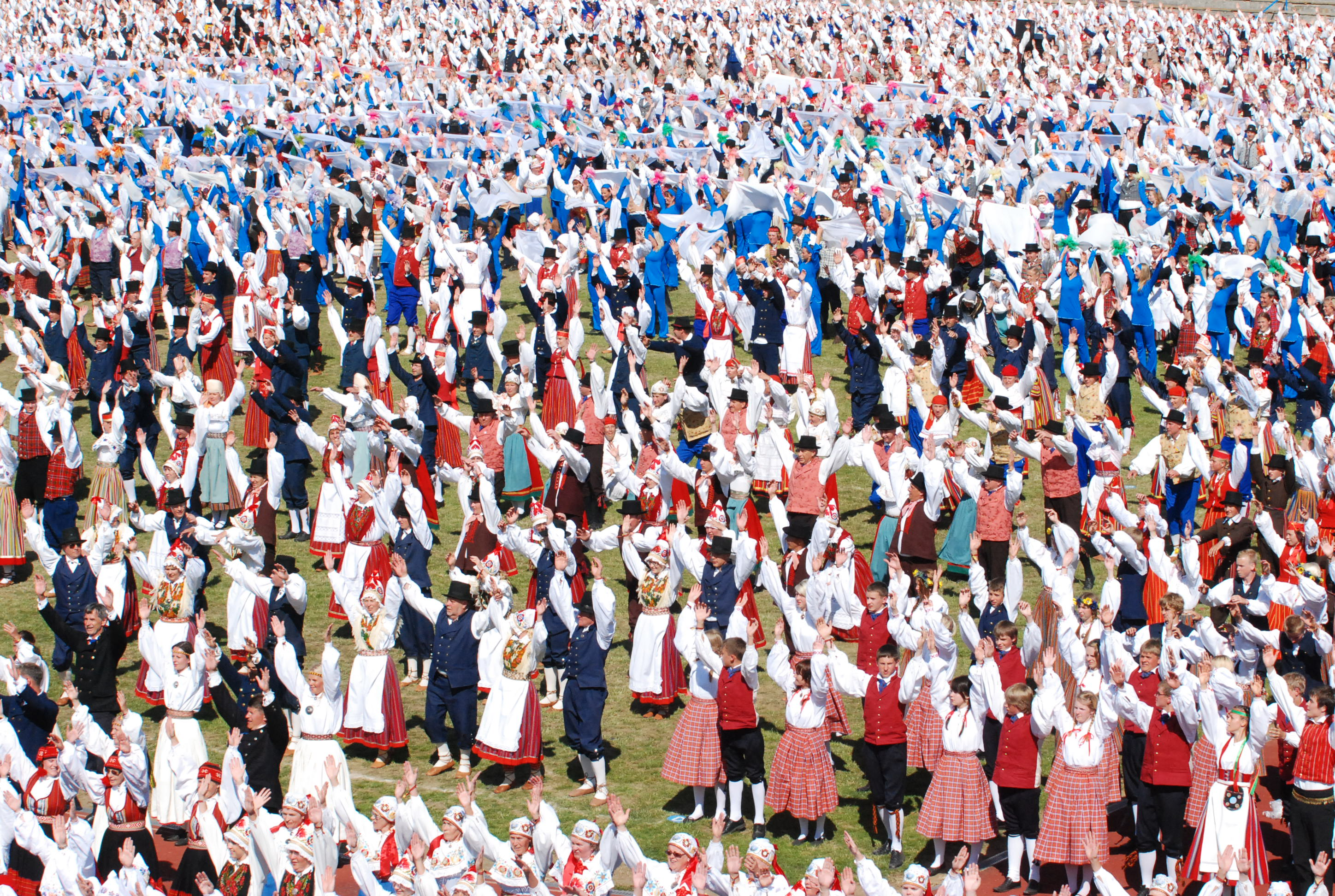 18th Estonian Dance Celebration.